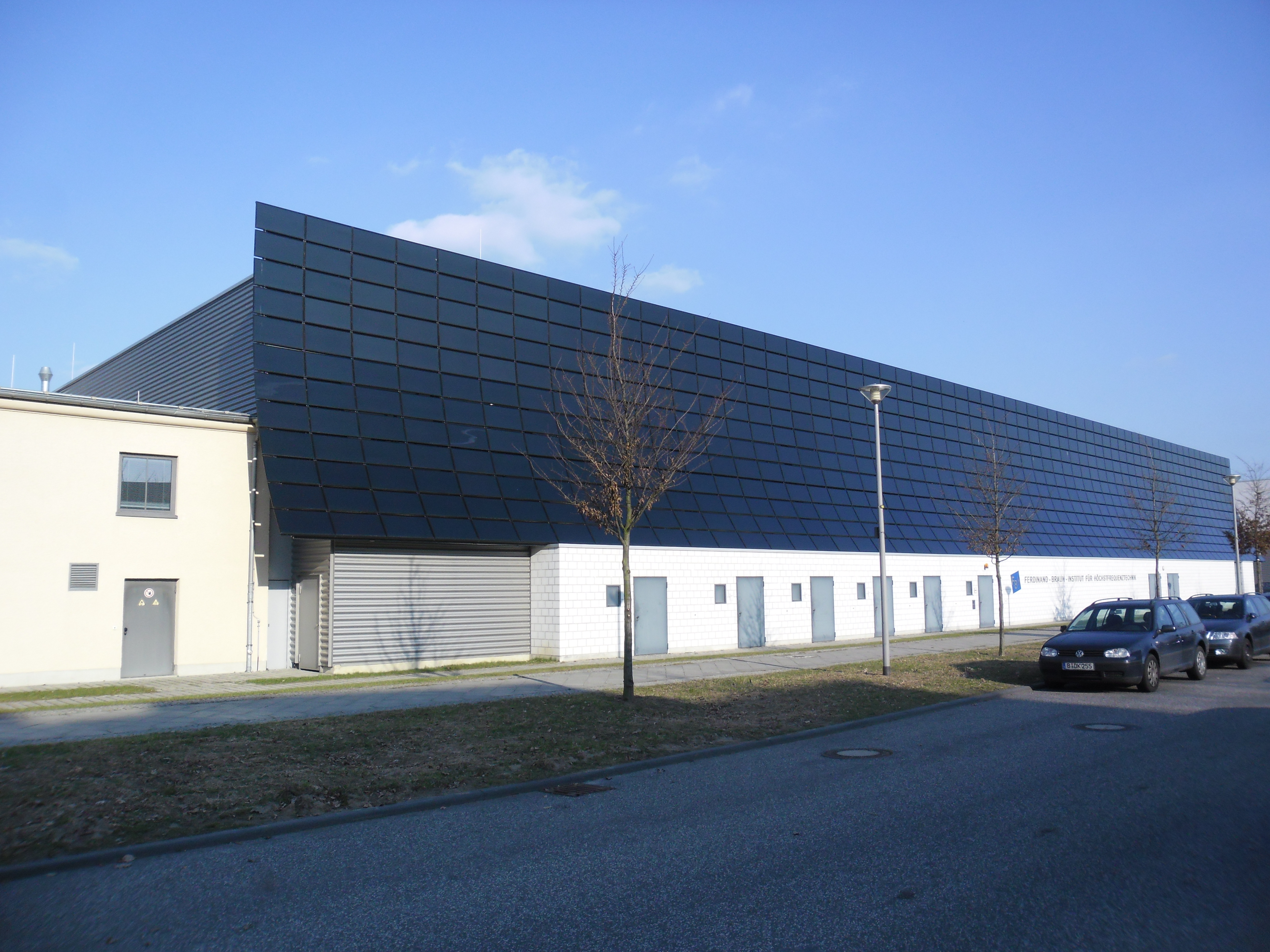 Ferdinand-Braun-Institut